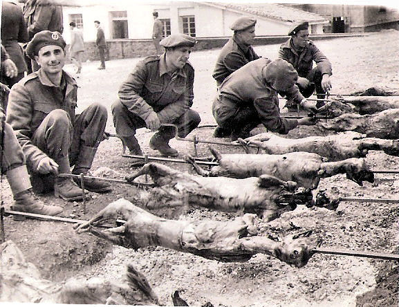 Greek soldiers roasting Easter lambs on open spits. 1958, Greece.